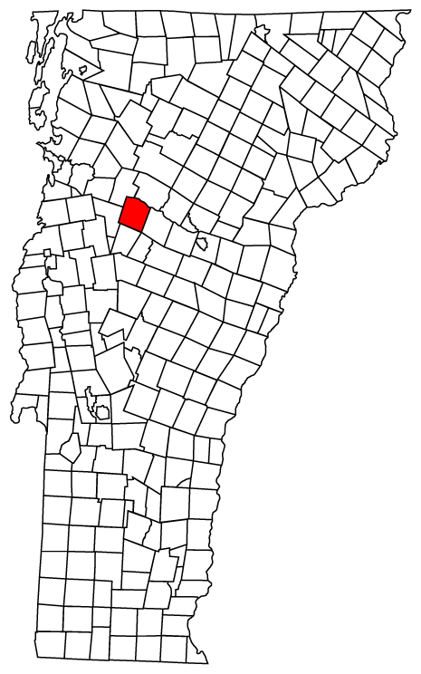 Description: Map of Vermont towns with Duxbury highlighted Source: Map created by Jared C. Benedict on 26 March 2004. Copyright: © Jared C. Benedict.